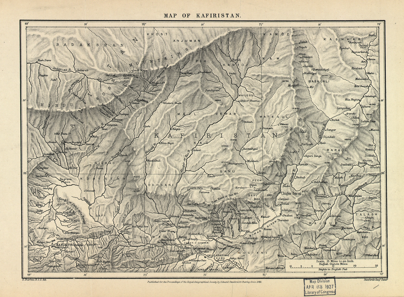 Kafiristan, or “The Land of the Infidels,” was a region in eastern Afghanistan where the inhabitants had retained their traditional culture and religion and rejected conversion to Islam. In 1896 the ruler of Afghanistan, Amir 'Abd al-Raḥmān Khān (reigned 1880−1901), conquered the area and brought it under Afghan control. The Kafirs became Muslims and in 1906 the region was renamed Nuristan, meaning the “Land of Light,” a reference to the enlightenment brought by Islam. Kafiristan was visited by British expeditions and survey missions in the 1870s and 1880s and was the subject of several papers read at sessions of the Royal Geographical Society in London. This map of Kafiristan was published in 1881 by the London firm of Edward Stanford for the Royal Geographical Society. The map is by Henry Sharbau (1822−1904), for many years the chief cartographer of the society.